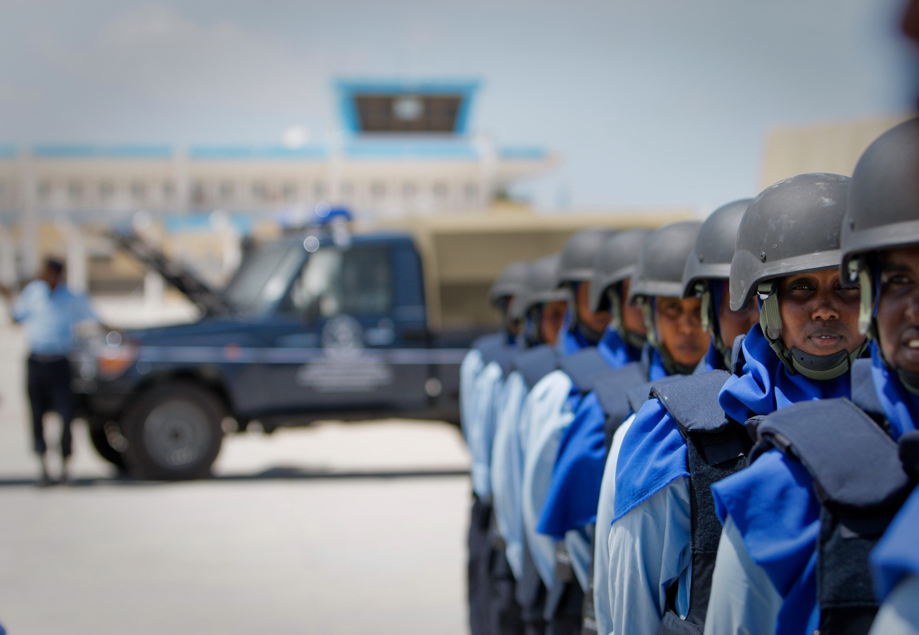 Female officers with the Somali Police Force (SPF) stand on parade 07 May 2012, ahead of a handover ceremony of equipment donated by the Government of Japan through the United Nations Political Office for Somalia (UNPOS) Trust Fund to support the rebuilding of the SPF in the Somali capital Mogadishu. The equipment included a motor transport fleet of 15 pick-up trucks, two troop personnel carries and two ambulances, 1.800 ballistic helmets and sets of handcuffs, over 1,000 VHF radio handsets, and musical instruments for the police band. AU-UN IST PHOTO / STUART PRICE.